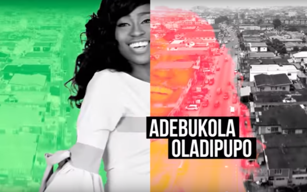 The third season of the series, dubbed :en: Shuga (TV series)|Shuga Naija , was shot and set in Nigeria, Directed by Biyi Bandele and actors Tiwa Savage, Chris Attoh, Maria Okanrende, Emmanuel Ikubese, Sharon Ezeamaka, Efa Iwara, Dorcas Shola Fapson, Okezie Morro, Timini Egbuson, Kachi Nnochiri, Sanni Mu'azu, Amal Umar, Adebukola Oladipupo and Leonora Okine